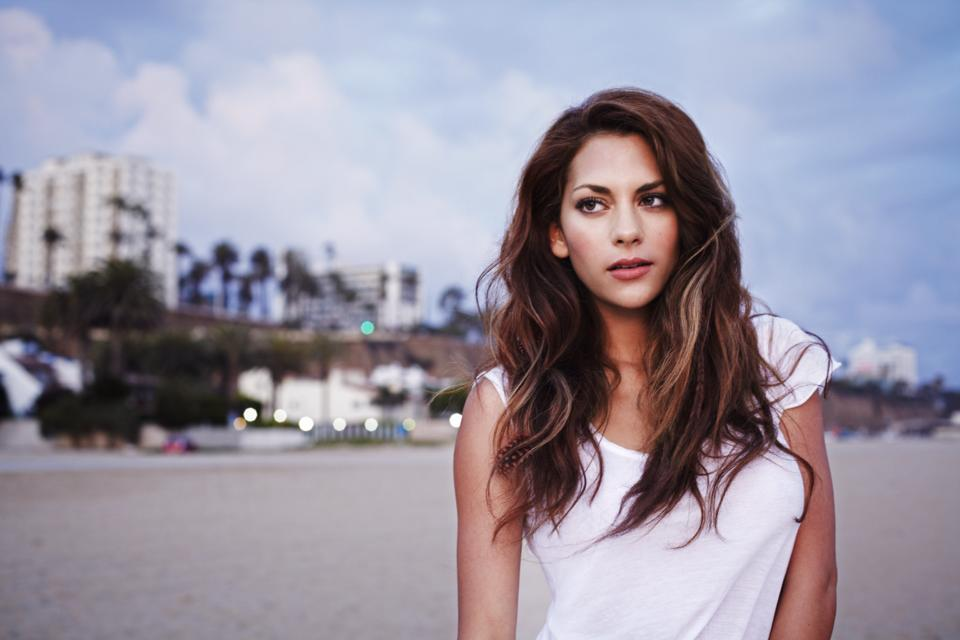 inbar lavi